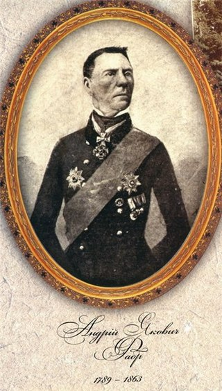 Яков-Франц Фабр